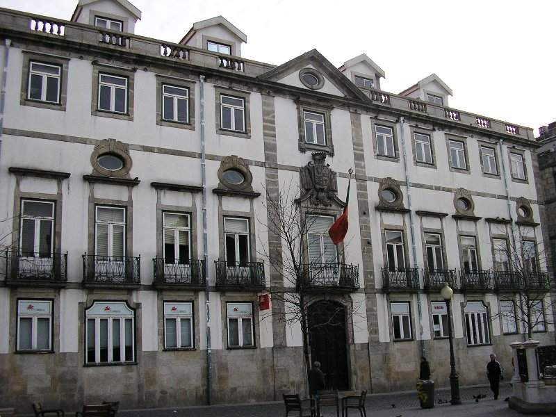 "Batalha" palace in Porto, Portugal. former post office. Hotel NH Collection Porto Batalha